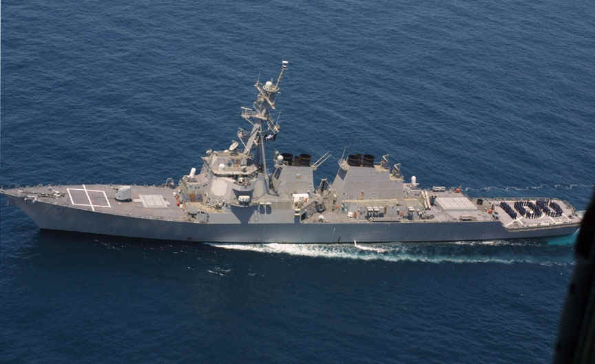 Description: Guided missile destroyer USS Hopper Caption: USS Hopper is a multi-mission AEGIS guided missile destroyer. The ship’s mission is to operate offensively in a high density, multi-threat environment as an integral member of a battle group, surface action group, amphibious task group, or underway replenishment group. Source: U.S. Navy USS Hopper homepage[1]